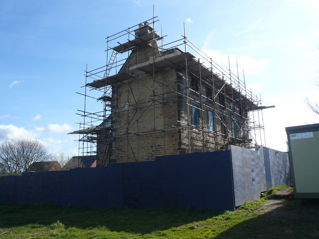 North Wingfield - Bright Street Old Manor House under renovation.